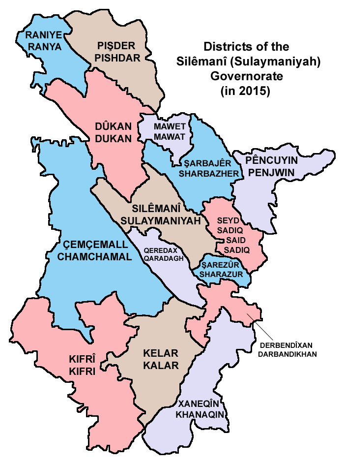 Map showing the districts of the Silêmanî (Sulaymaniyah) Governorate of Kurdistan Region in Iraq (in 2015).